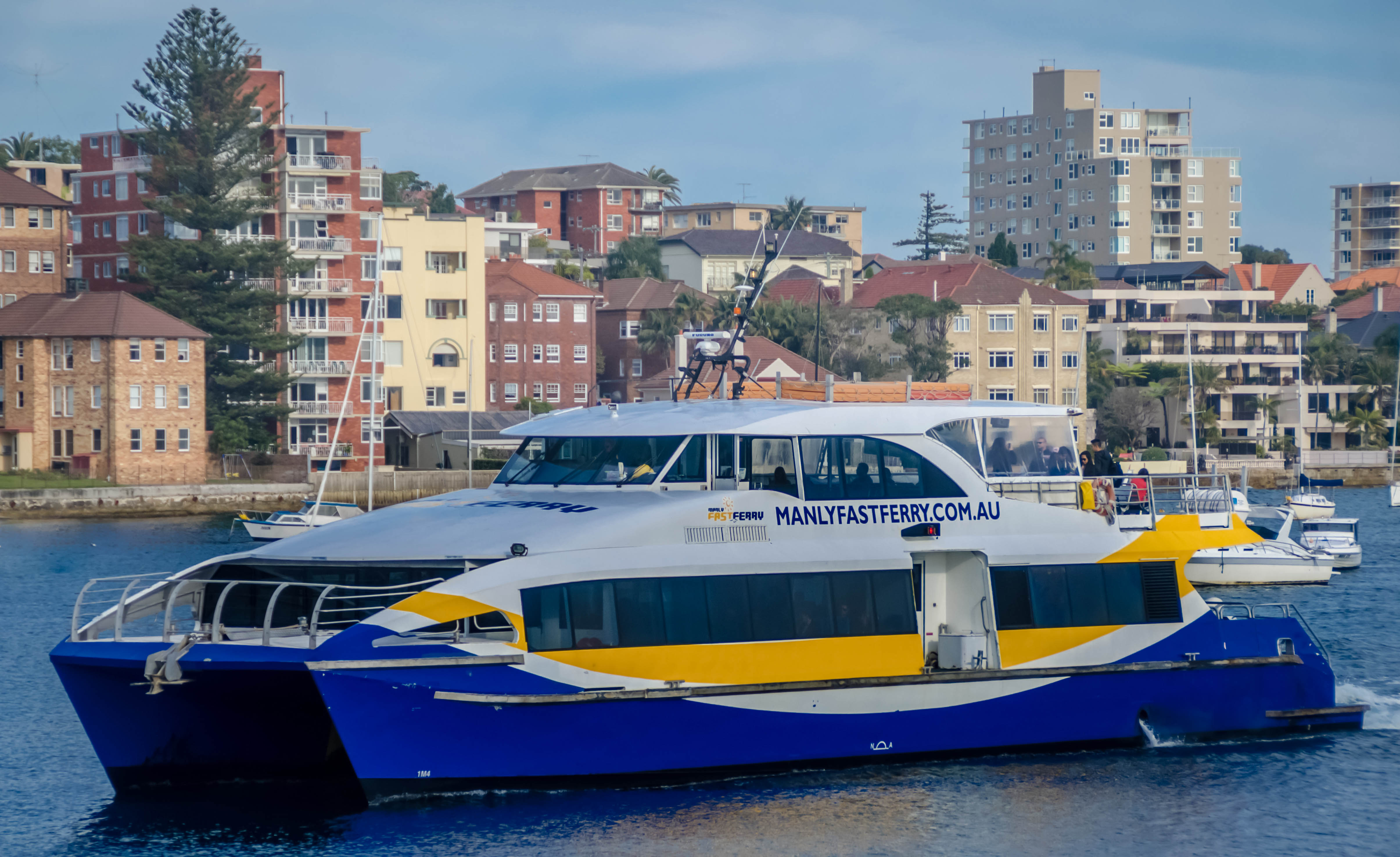 Manly Fast Ferry arriving at Manly Wharf